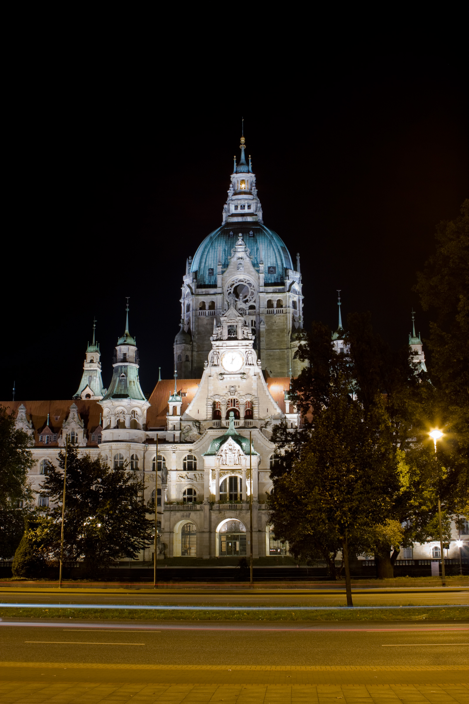 New City Hall at night.